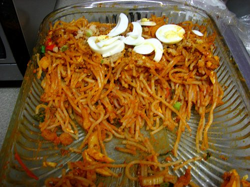 Pancit malabon